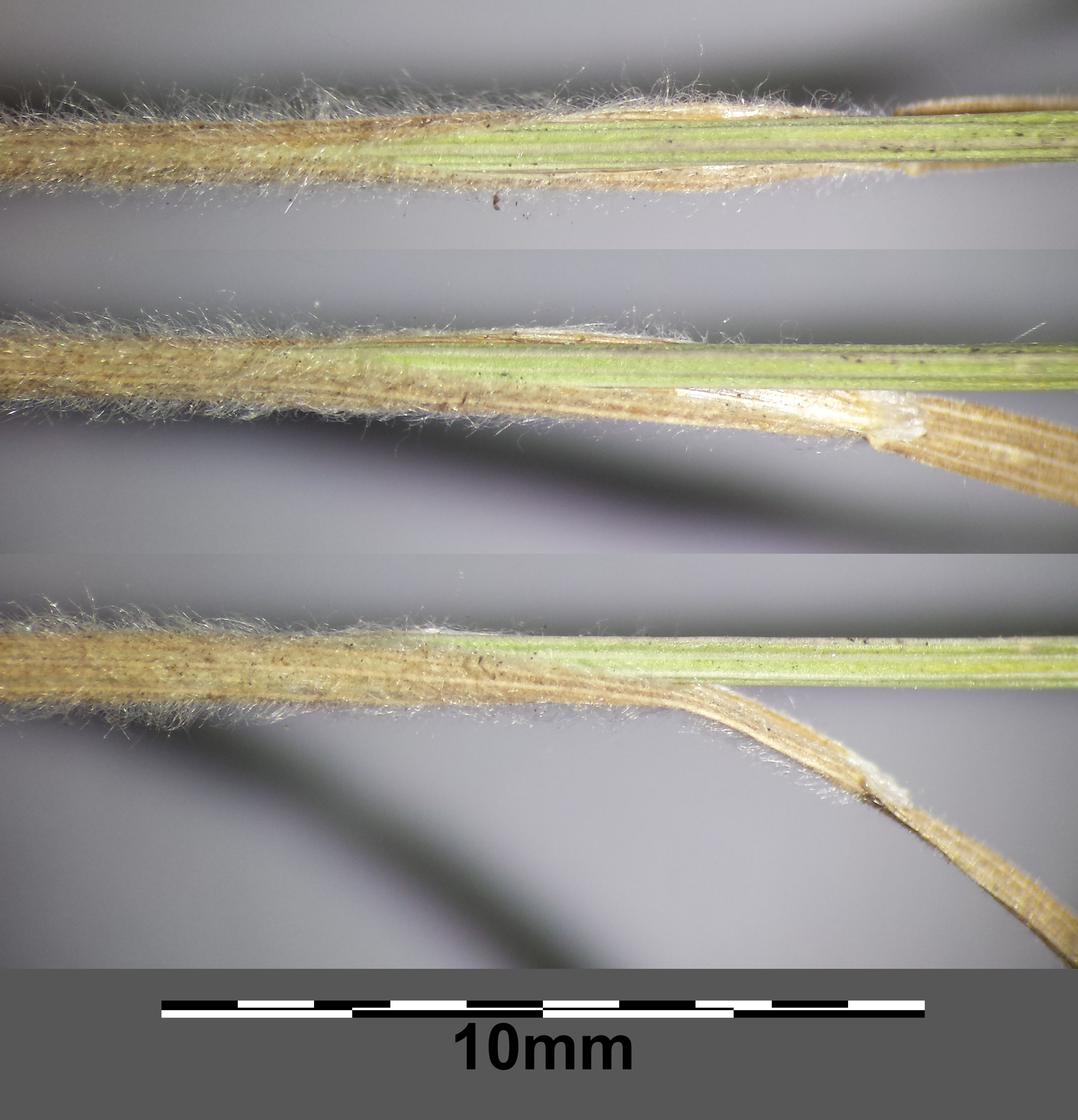 Stem with leaf sheath and ligule Taxonym: Bromus squarrosus ss Fischer et al. EfÖLS 2008 ISBN 978-3-85474-187-9 Location: Braunsberg next to Hainburg, district Bruck an der Leitha, Lower Austria - ca. 330 m a.s.l. Habitat: dry-grassland